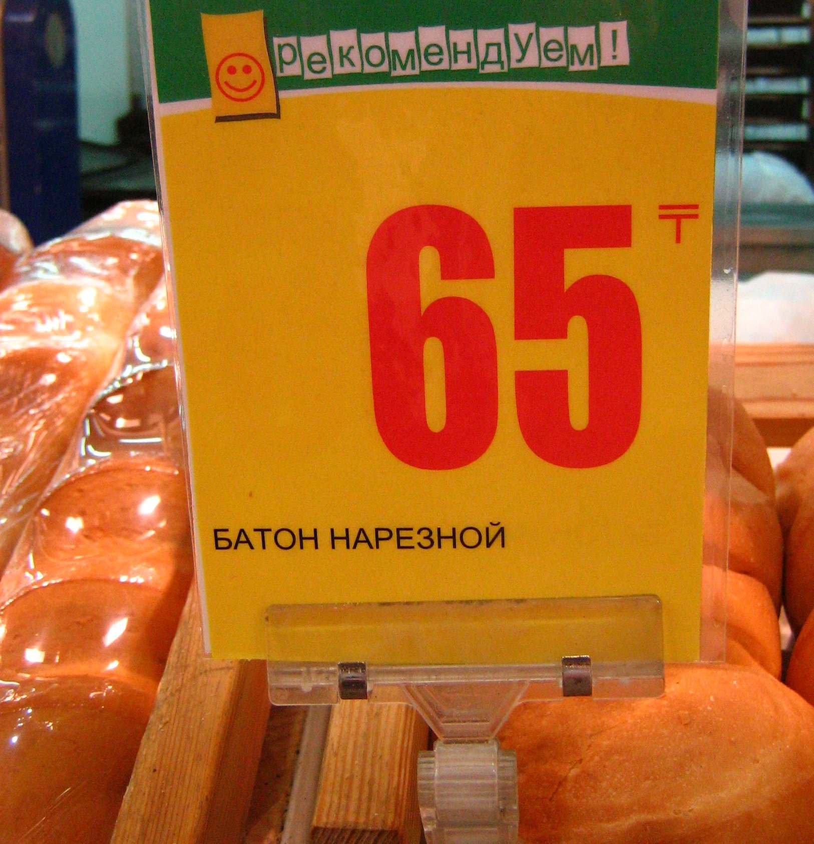 New tenge sign (〒) at a price of a bread (65 〒) in a market in Kazakhstan